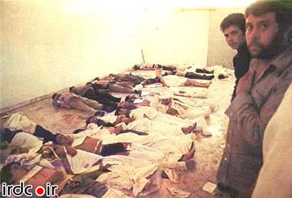 Victims of "Black Friday" of Iran (Sep 8, 1978)